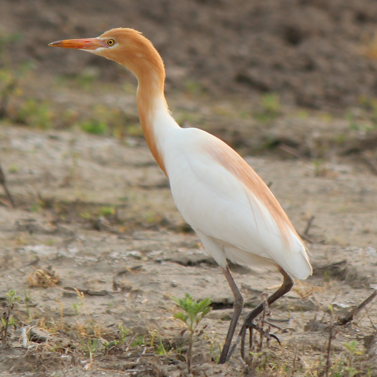 Bubulcus coromandus (Eastern Cattle Egret), walking in Japan